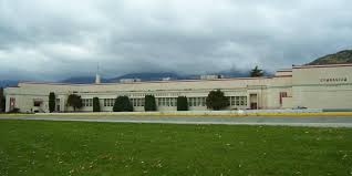 Original SOSS that was destroyed in the September 12, 2011 fire.